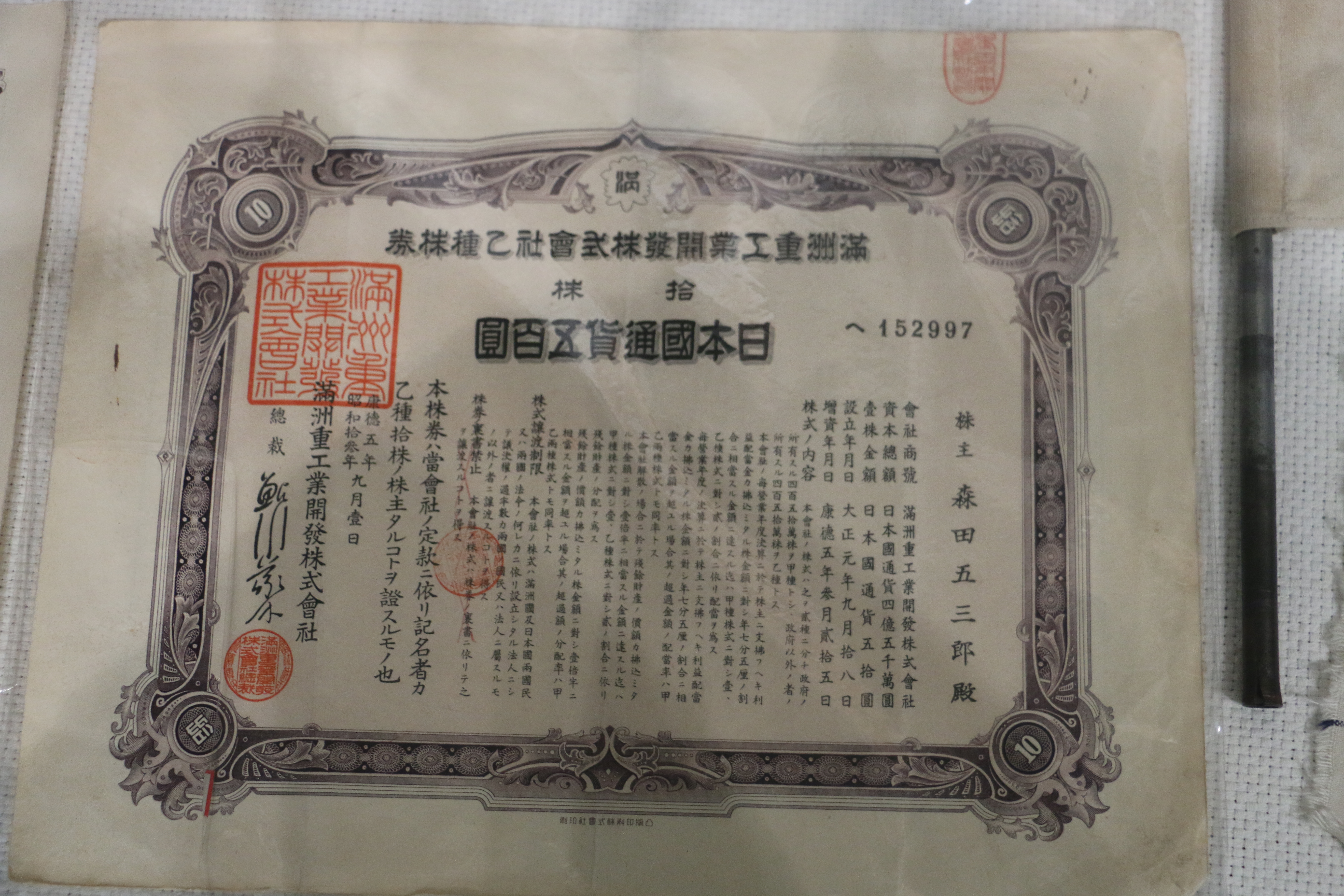 The type B stock of SMG, kept in China Industrial Museum.